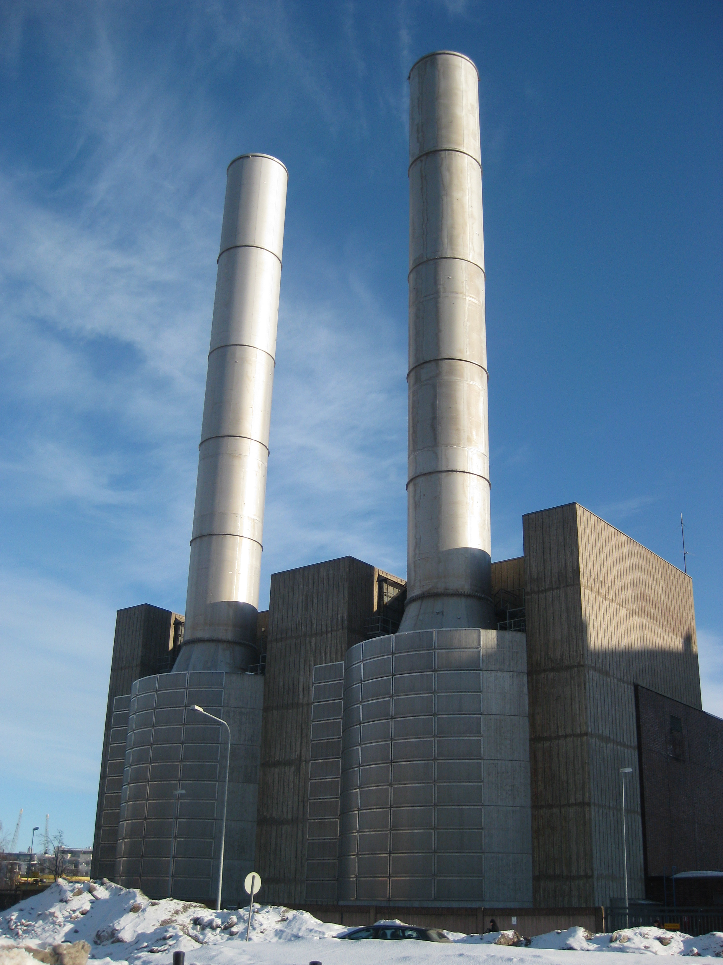 Kellosaari reserve power plant in winter, Helsinki